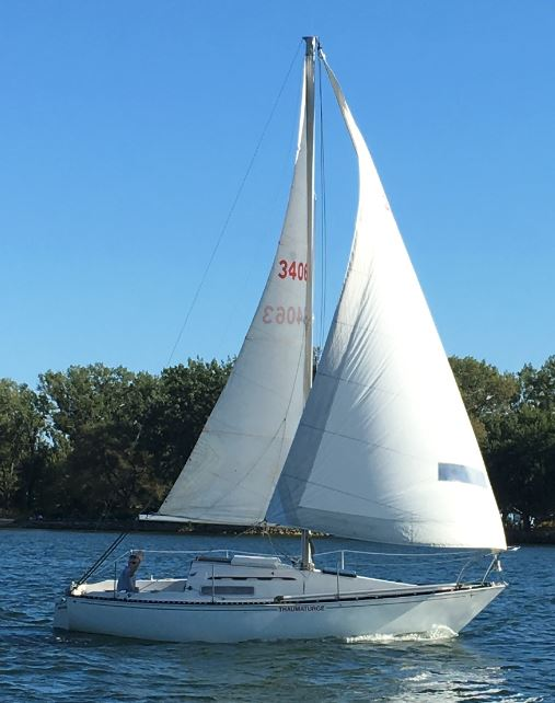 1975 C&C 25 Mark I "Thaumaturge" sailing in Toronto Harbour, September 2018